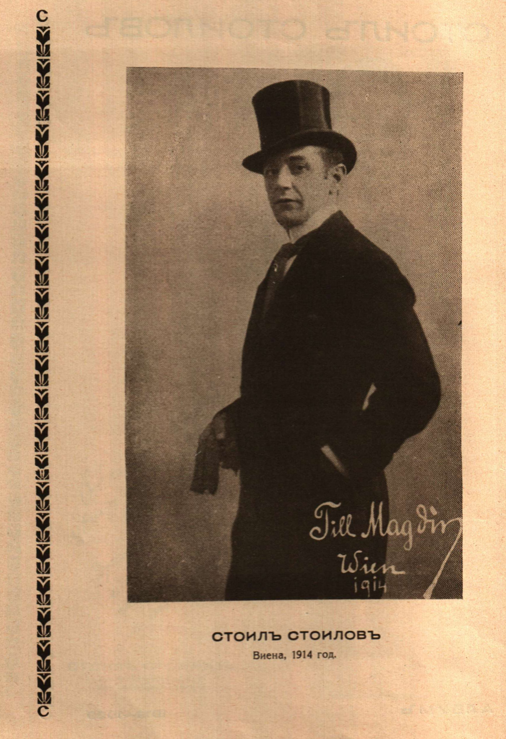 Stoil Stoilov